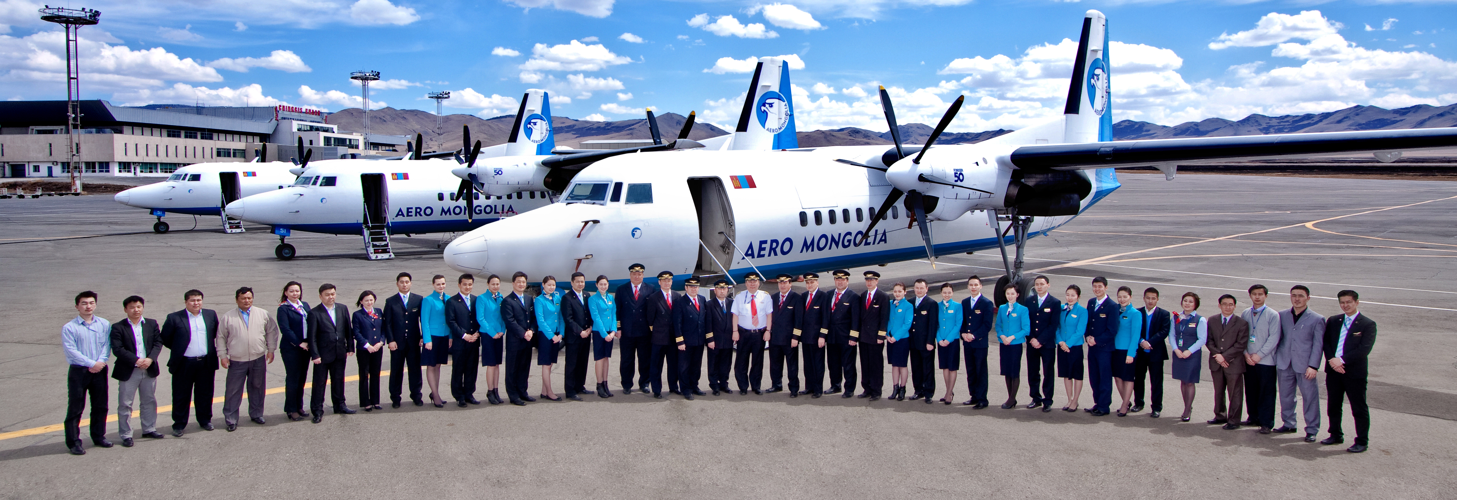 Aero Mongolia welcome